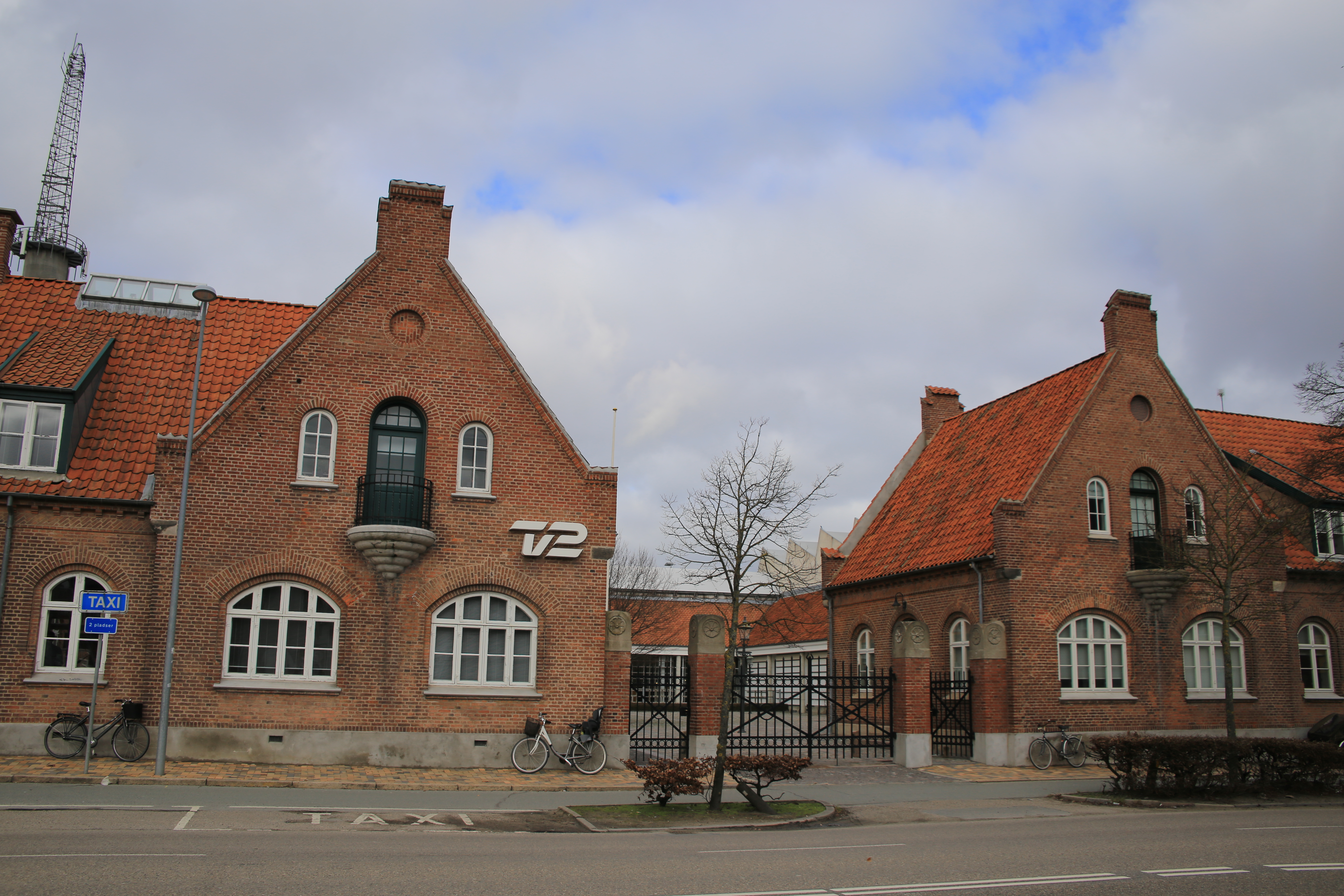 TV 2 Danmark seen towards Rugårdsvej in Odense, Denmark.